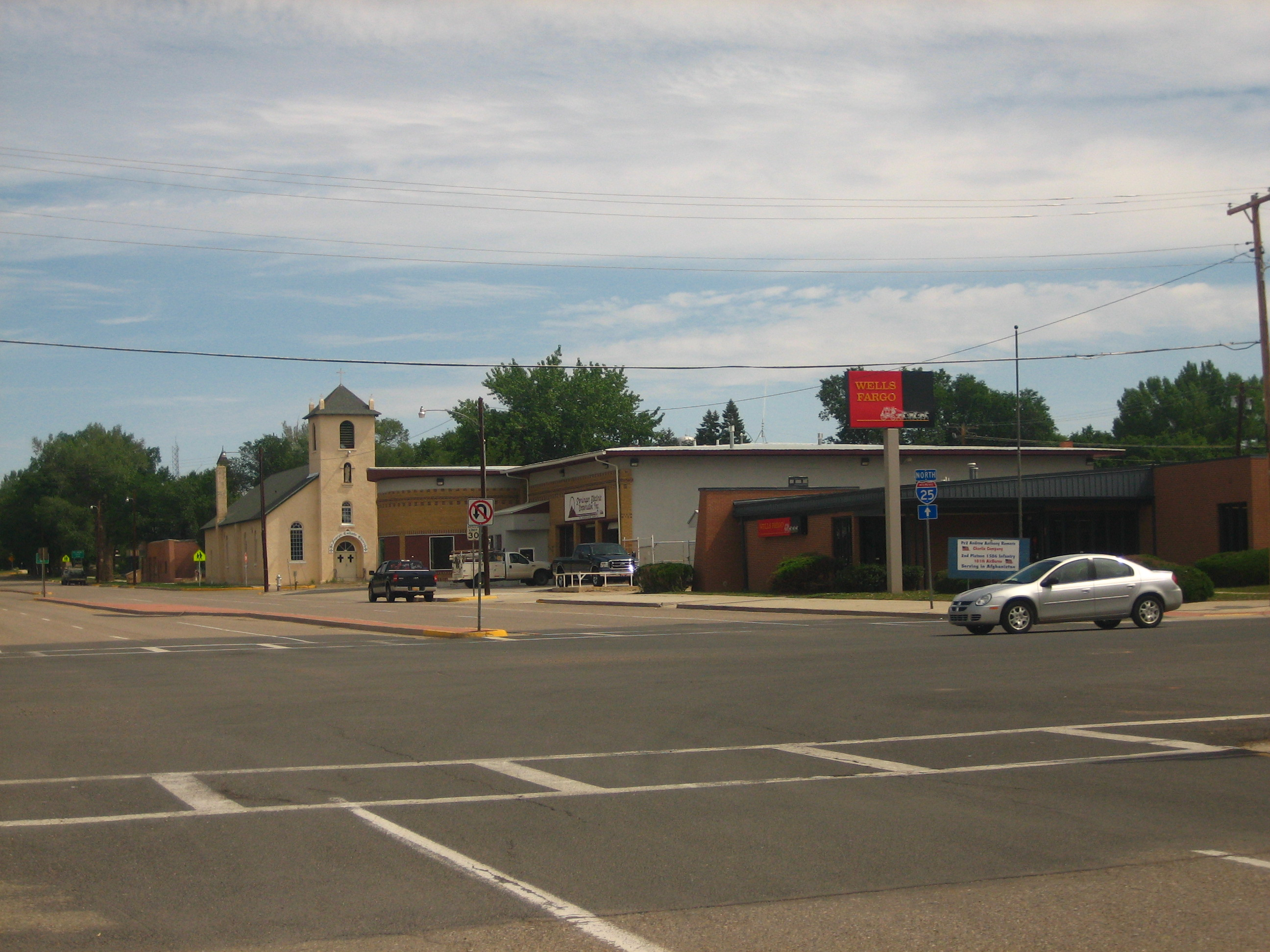 I took photo on July 14, 2008.Billy Hathorn (talk) 21:36, 19 September 2008 (UTC)